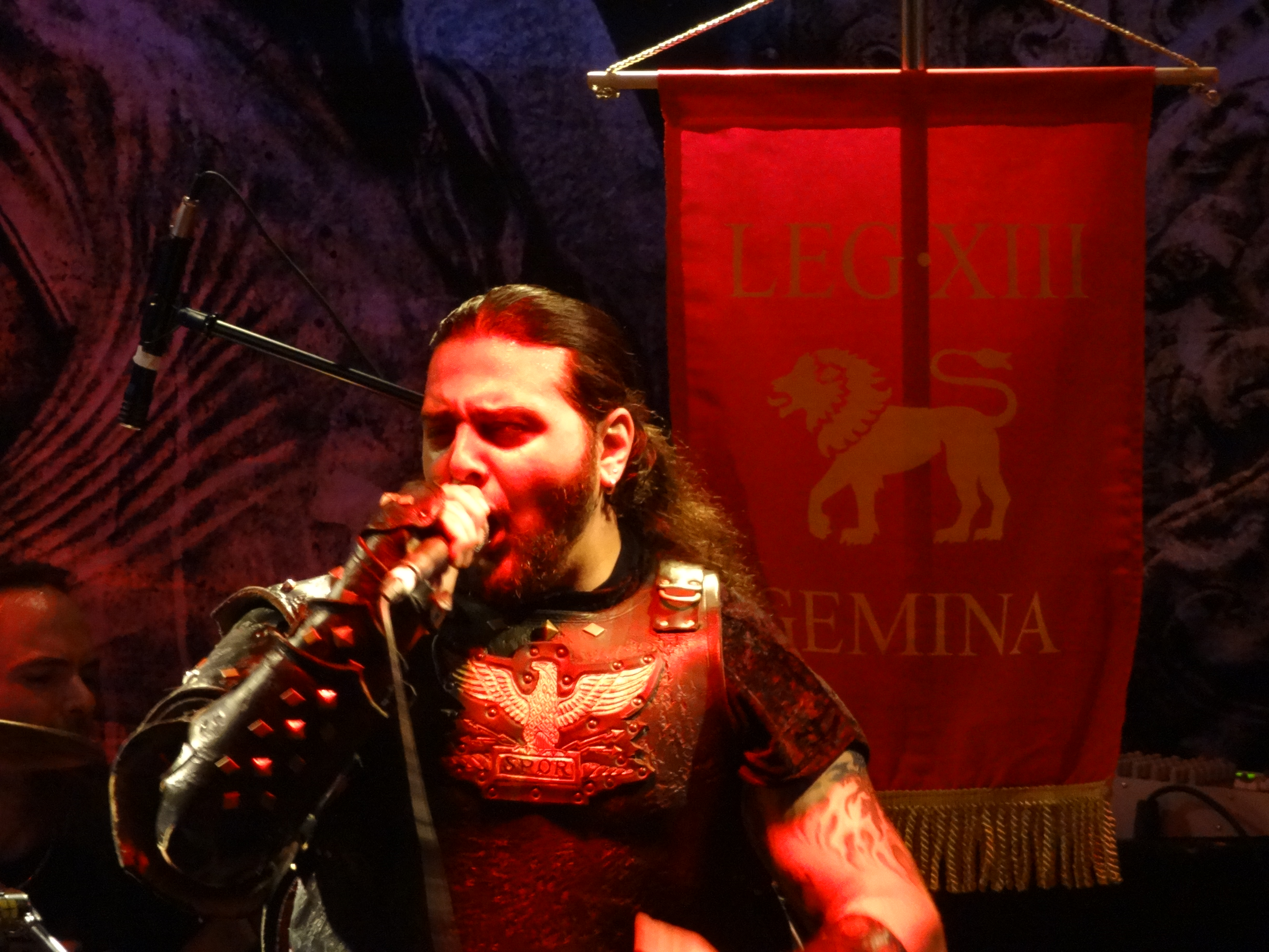 Ex Deo singer